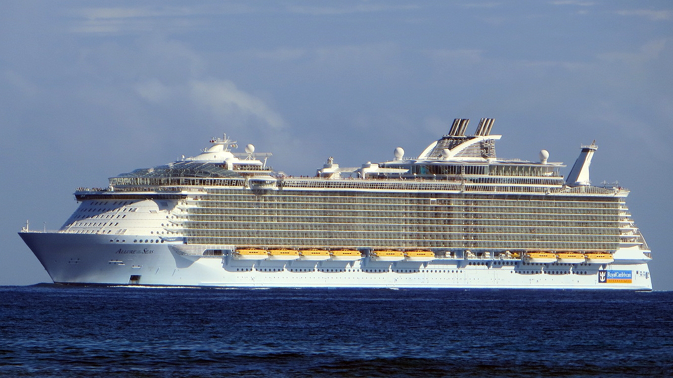 Cruise ship Allure of the Seas in Falmouth, Jamaica